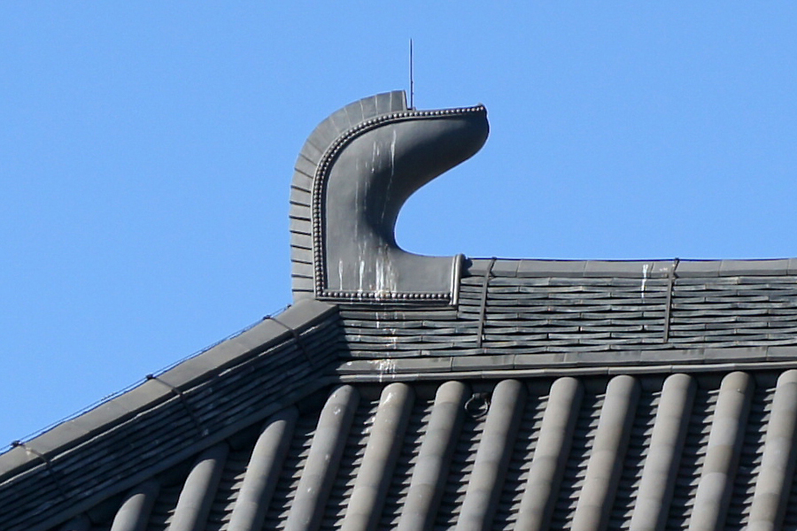 Tōshōdai-ji's Golden Hall is a Japan's National Treasure in Nara, Nara prefecture, Japan. It was built at the Nara period (AD 710 to 794).